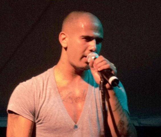 Danny Fernandes photo taken by me for free use in the Wikipedia article pertaining to the artist